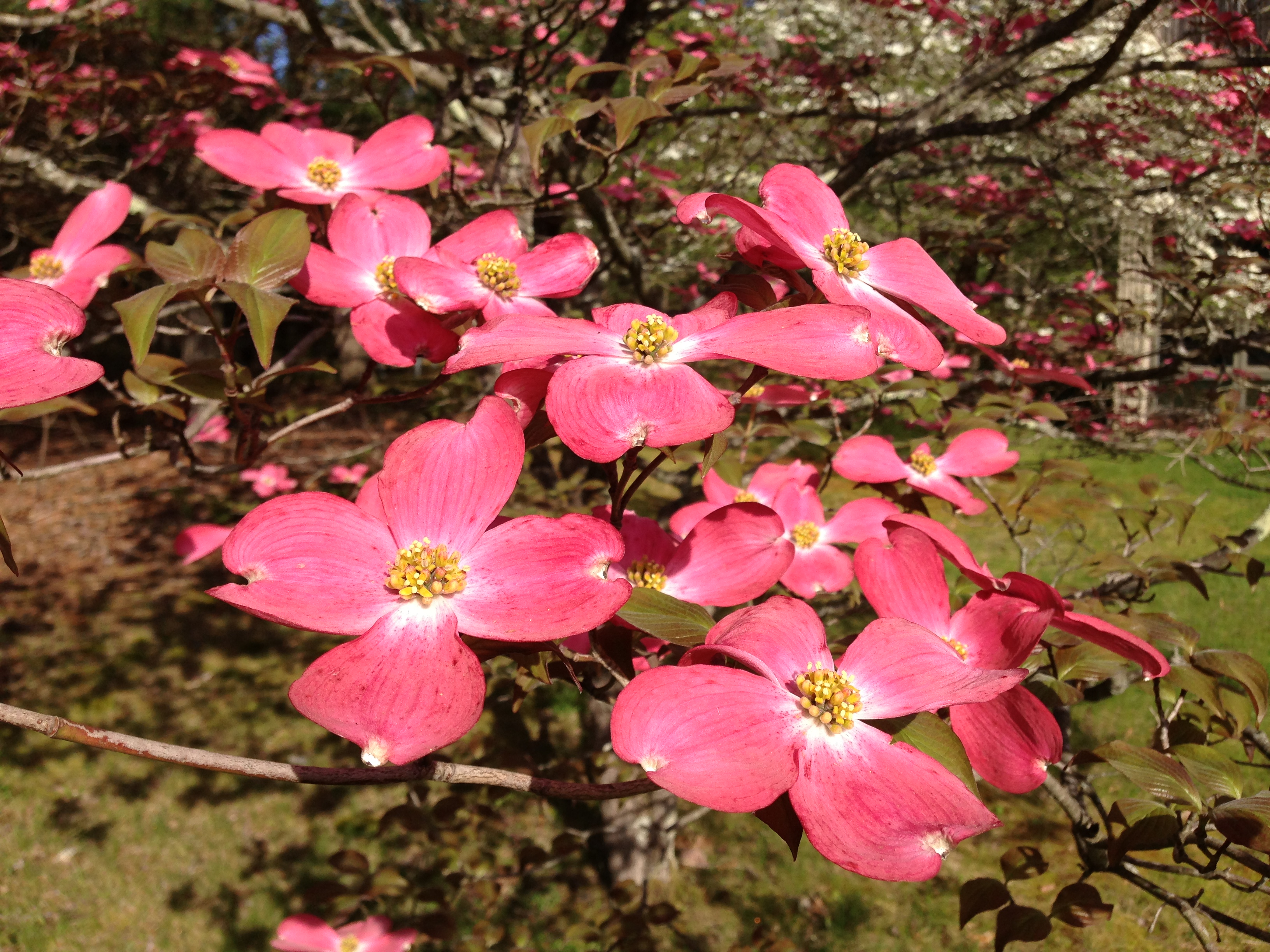 Closeup of pink dogwoods at the Brendan T. Byrne State Forest headquarters on May 10th 2013